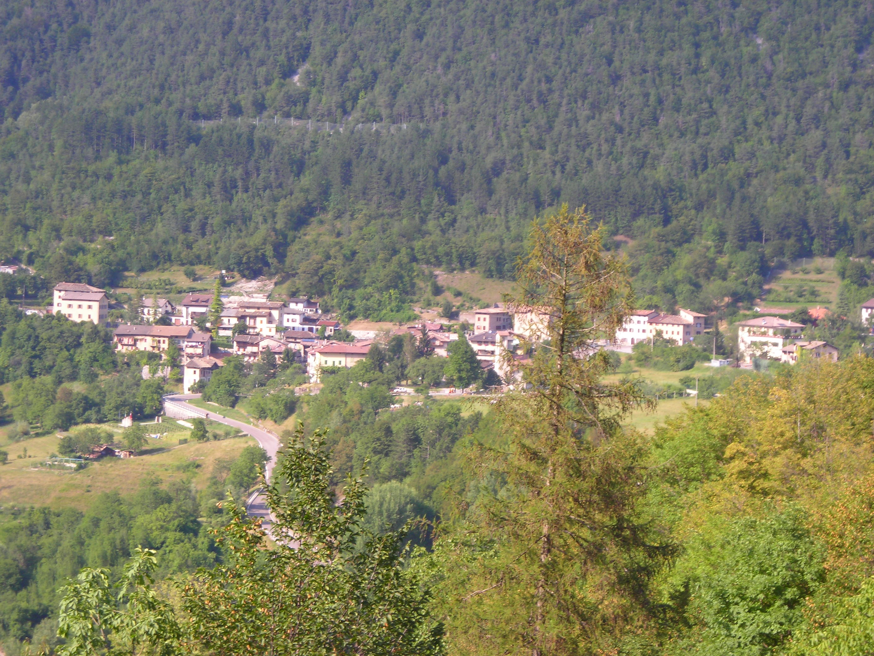 Vallarsa (Italy): the village of Anghebeni viewed from south-west